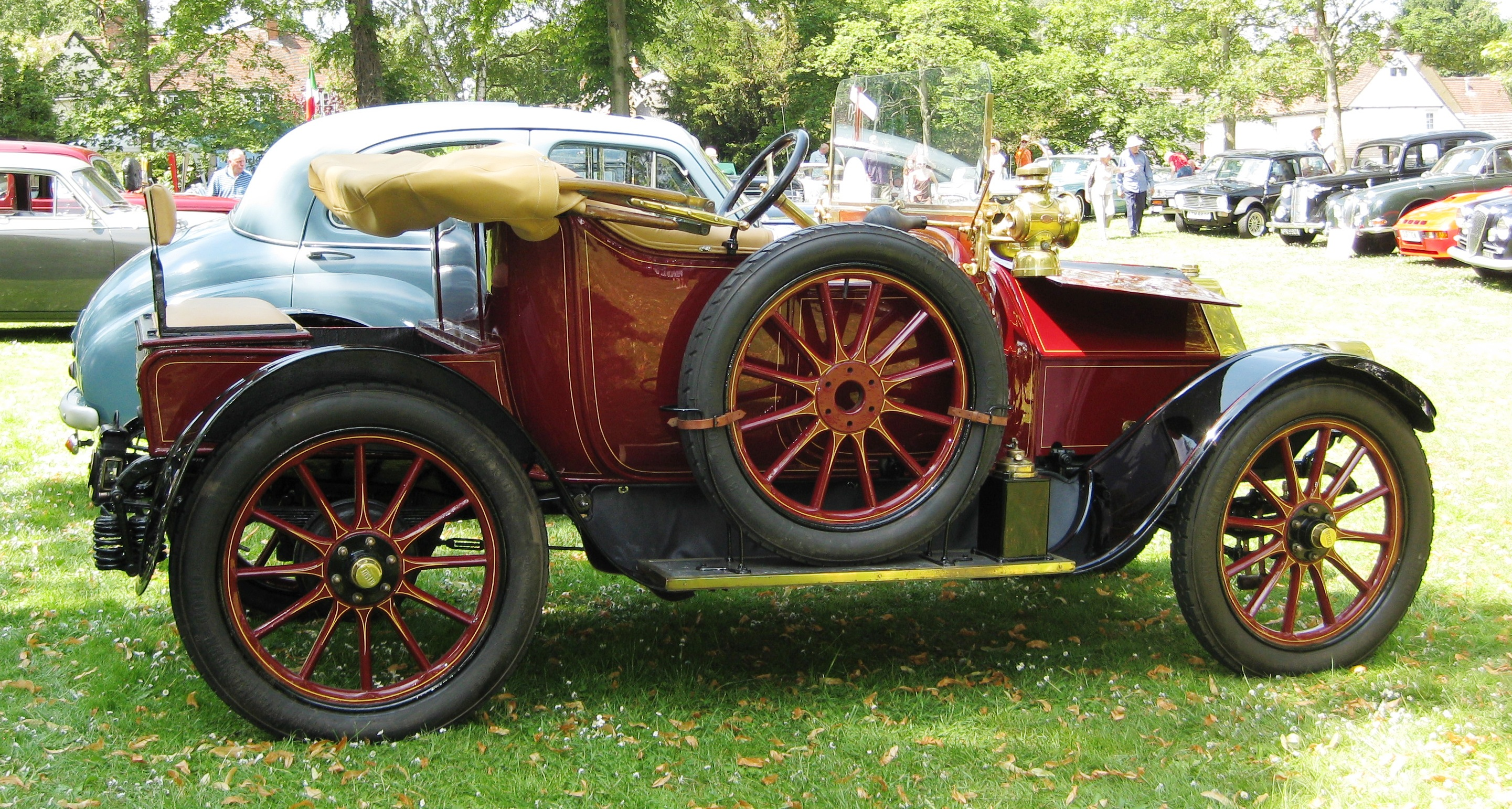 Belsize with dickey seat up